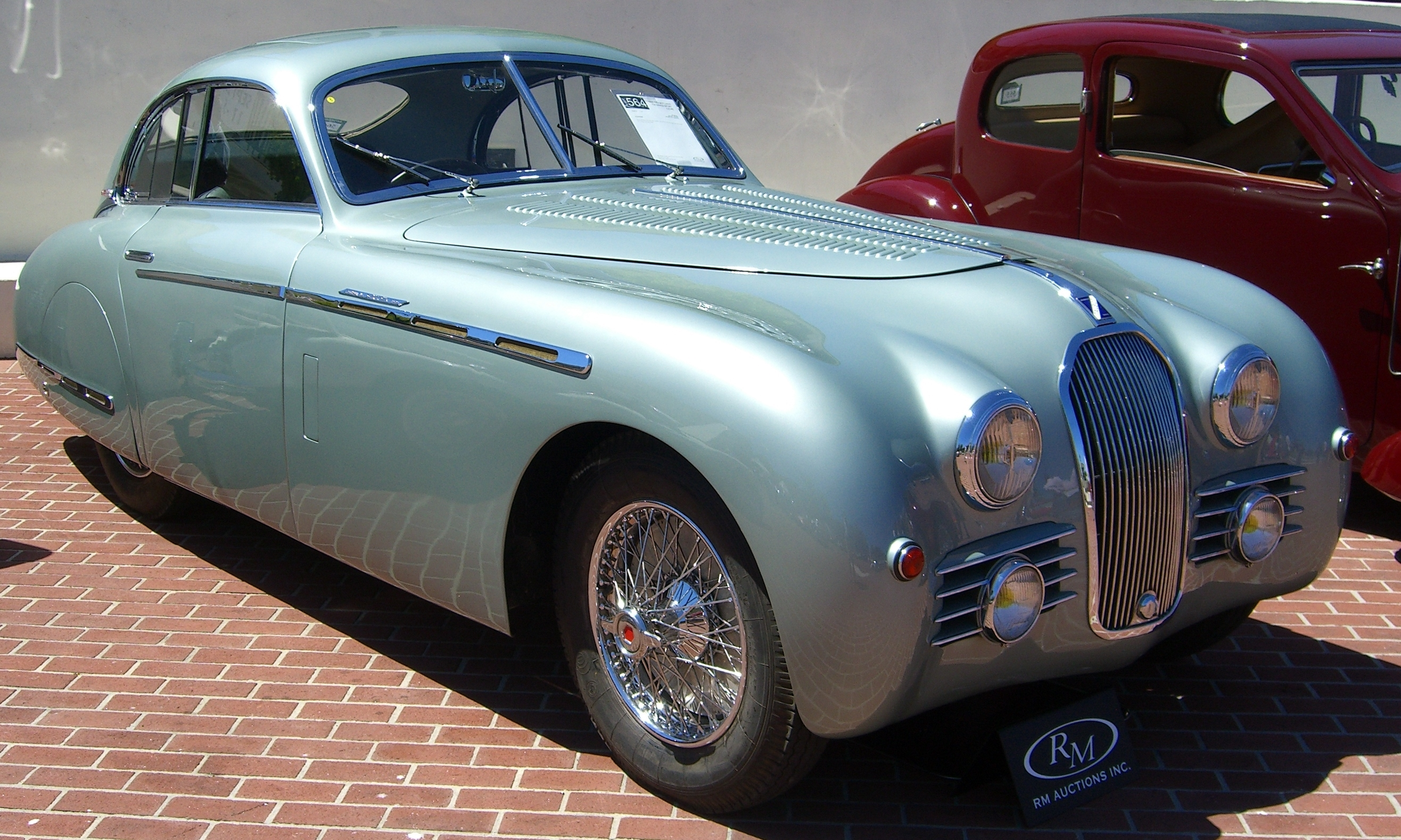 1950 Talbot-Lago T26, coachwork by Jacques Saoutchik, Paris 190bhp 4,482 cc seven main bearing hemispherical head twin cam inline six-cylinder engine with a Wilson pre-selector transmission, independent front suspension, live axle and semi-elliptic leaf spring rear suspension, and four wheel hydraulic drum brakes. Wheelbase: 104" (2641.6mm) source